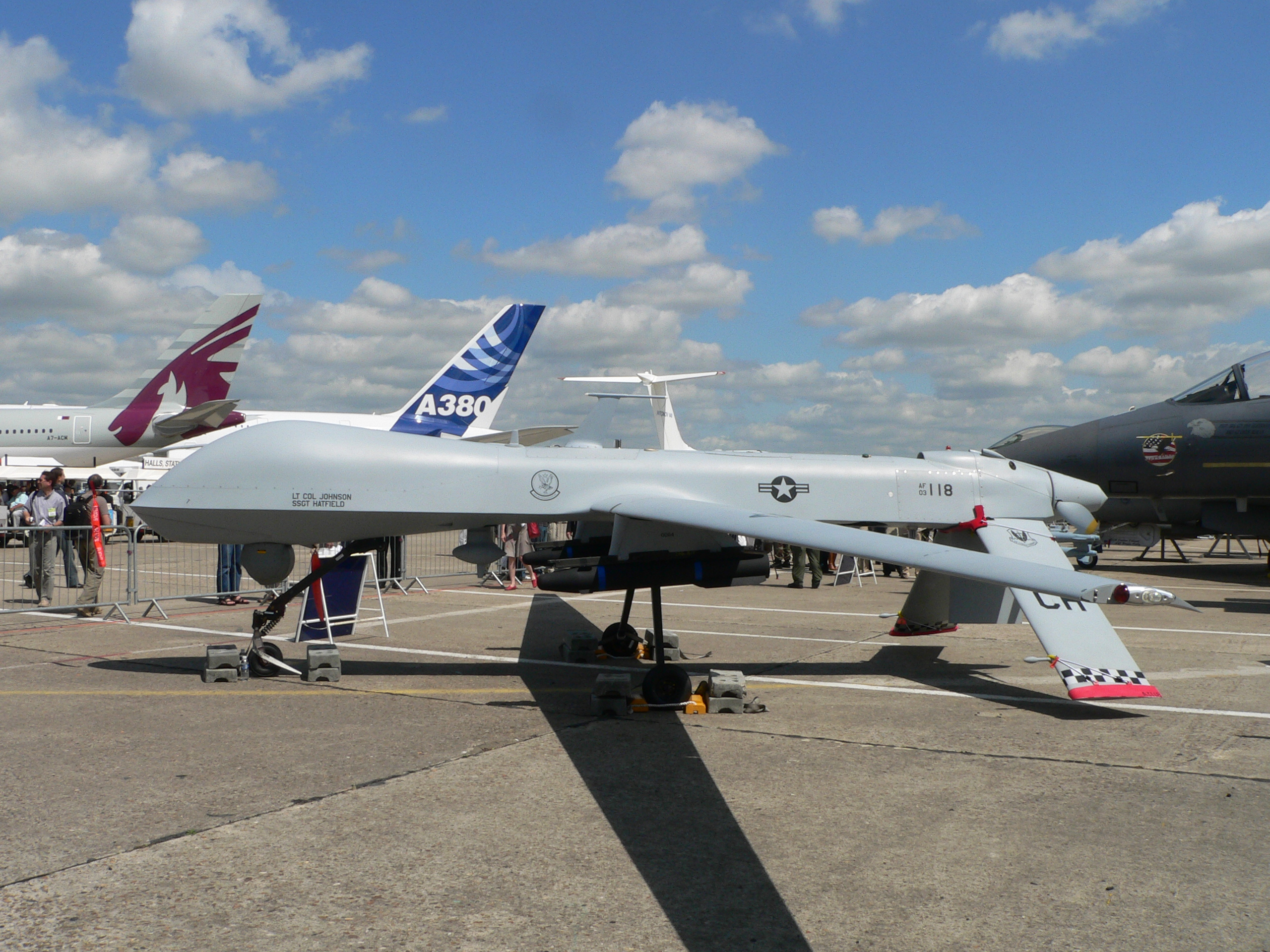 General Atomics MQ-1 Predator at Paris Air Show 2007